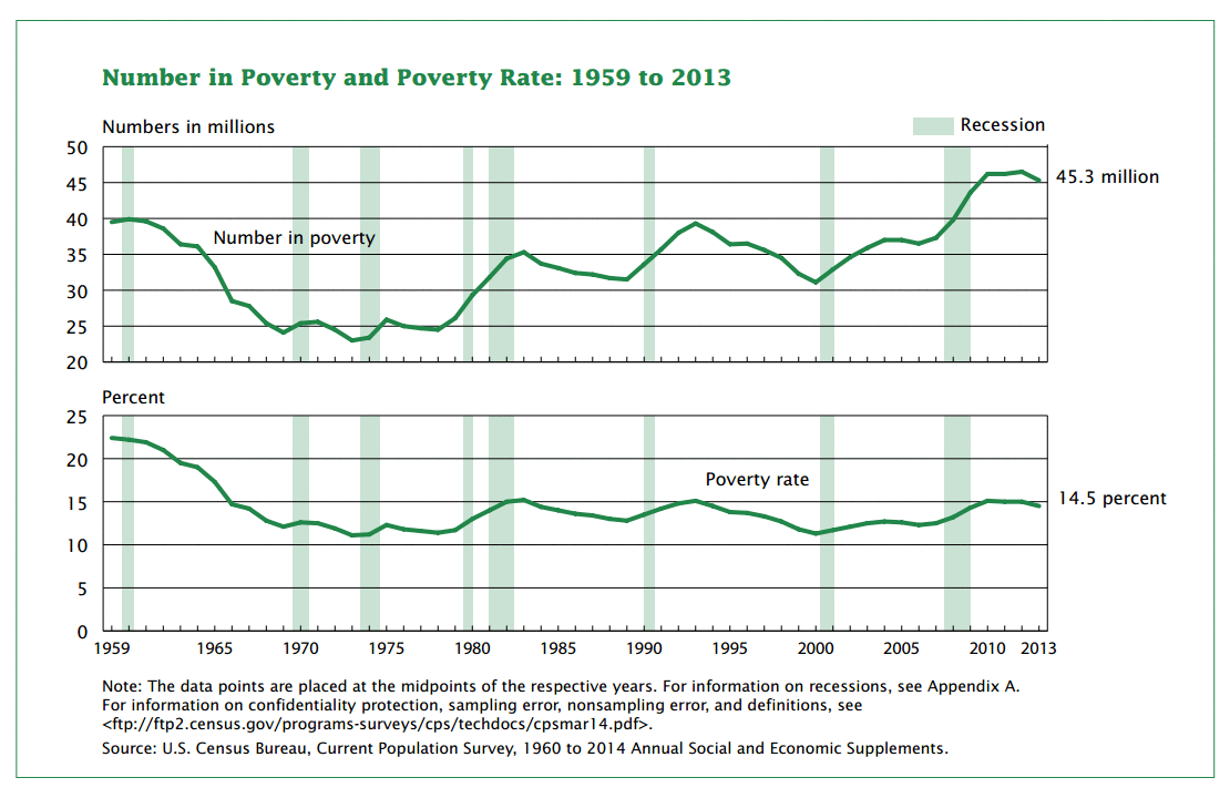 Number in Poverty and Poverty Rate: 1959 to 2013. United States.